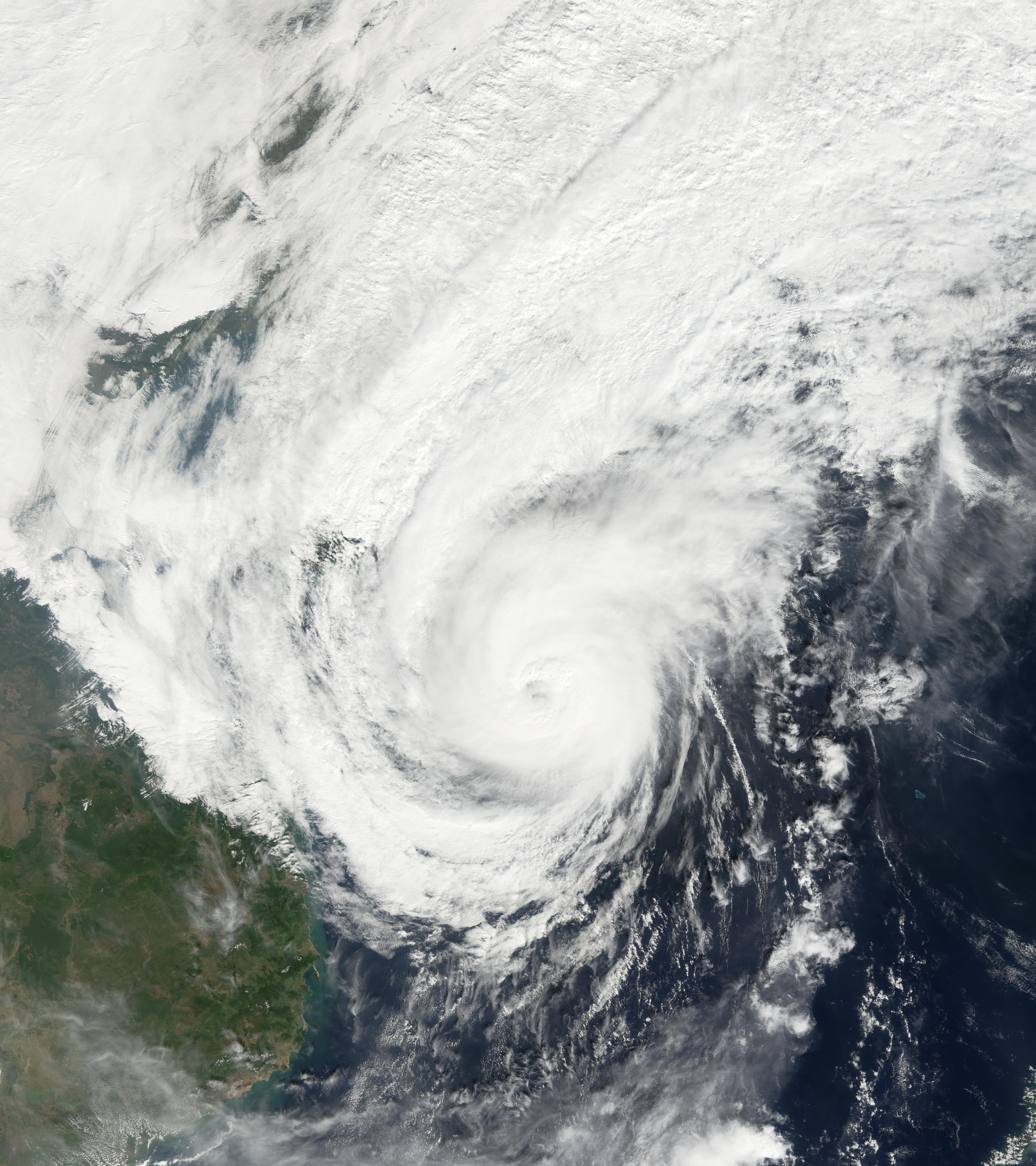 Typhoon Utor struck the Philippines on December 9, 2006. Coming just a week after Super Typhoon Durian passed through the island chain on a parallel path just to the north, Utor brought heavy rain and strong winds to sodden ground and swollen rivers. Xangsane, Cimaron, and Chebi earlier in the year had also followed very similar tracks to Utor. Like Durian before it, Utor then crossed the South China Sea and come ashore in mainland Asia along the Vietnam coast. This photo-like image was acquired by the Moderate Resolution Imaging Spectroradiometer (MODIS) on the Terra satellite on December 13, 2006, at 10:05 a.m. local time (3:05 UTC), while the storm’s center was still far off the Vietnamese shoreline. The storm system had the well-defined shape of a powerful typhoon, with a cloud-filled but quite distinct eye. Utor’s spiral cloud arms were bringing strong winds and rain over a wide area from southern China to Thailand and beyond, even with the typhoon’s center well offshore. Sustained winds were around 175 kilometers per hour (110 miles per hour), according to the University of Hawaii’s Tropical Storm Information Center.